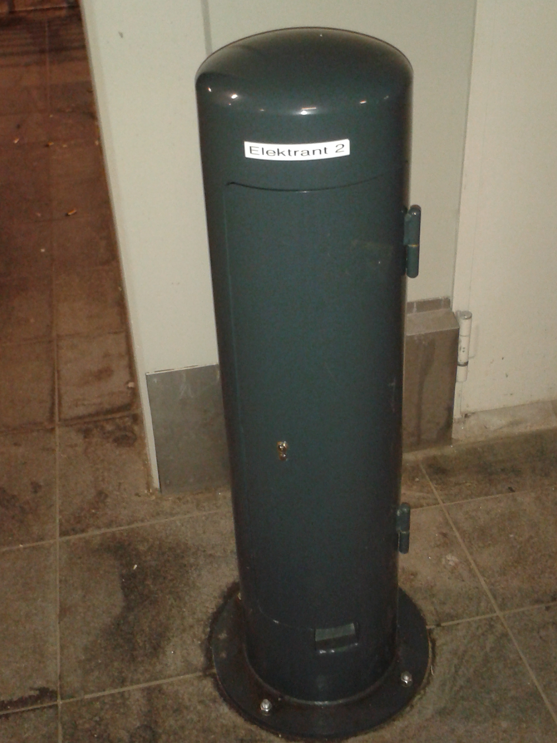 Electrant at railway station Ostkreuz in Berlin